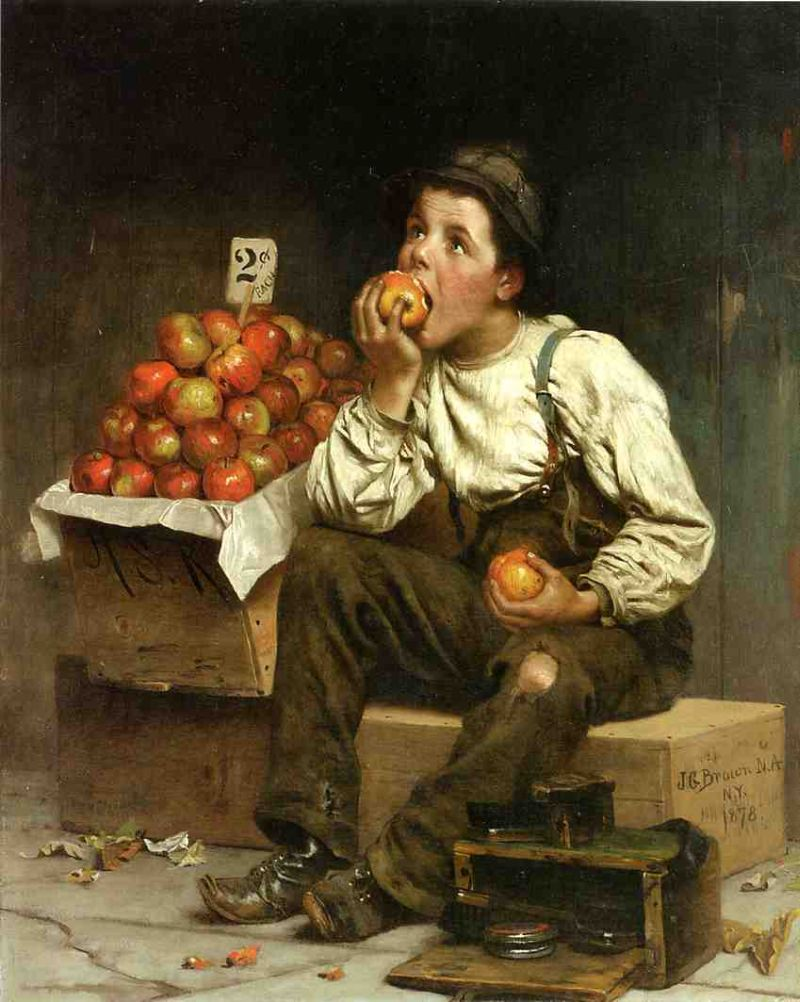 Eating the Profits